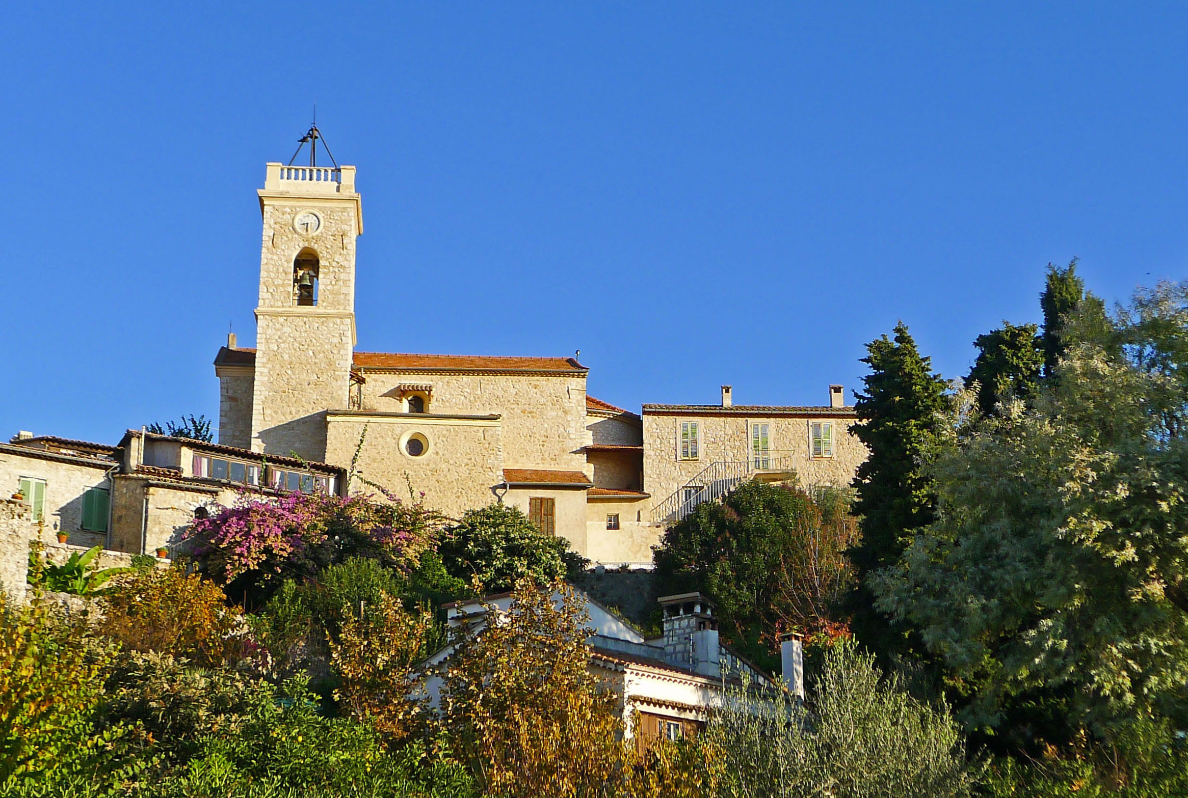 The church of La Gaude